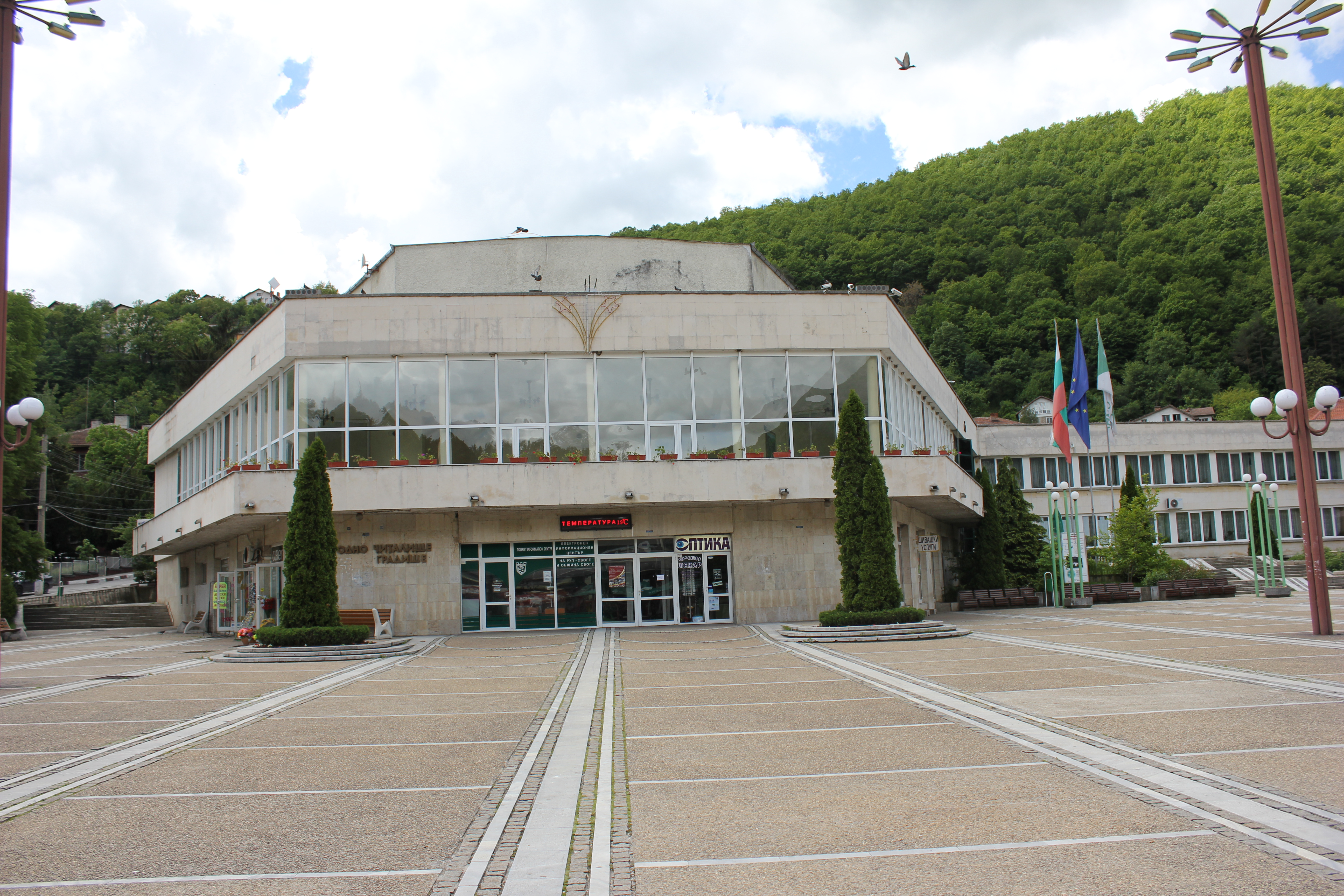 Svoge Culture Club (Chitalishte) and Town hall